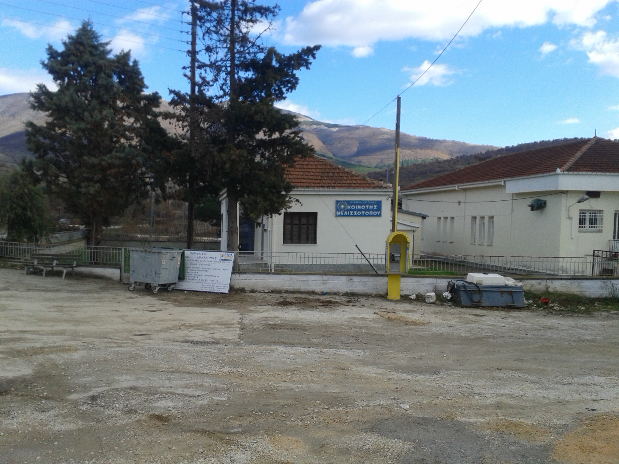 Municipal building in Melissotopos, Kastoria Prefecture